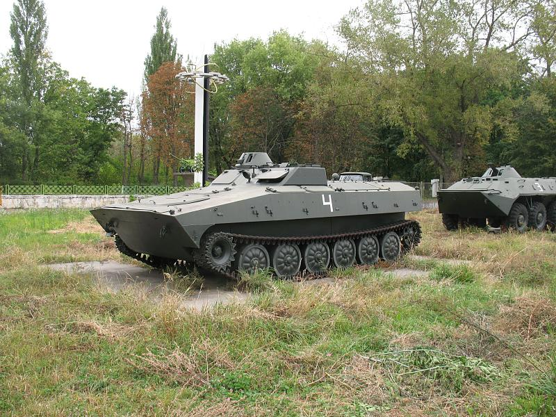 RKhM "Kashalot" (vehicle numbered four) and BTR-70 (vehicle numbered three), Pripyat near Chernobyl. The truck cabin visible behind the RKhM "Kashalot" belongs to a ZiL-131 (see File:RKhM "Kashalot", BTR-70, BRDM-2 and BTS-4, Chernobyl.jpg for reference).